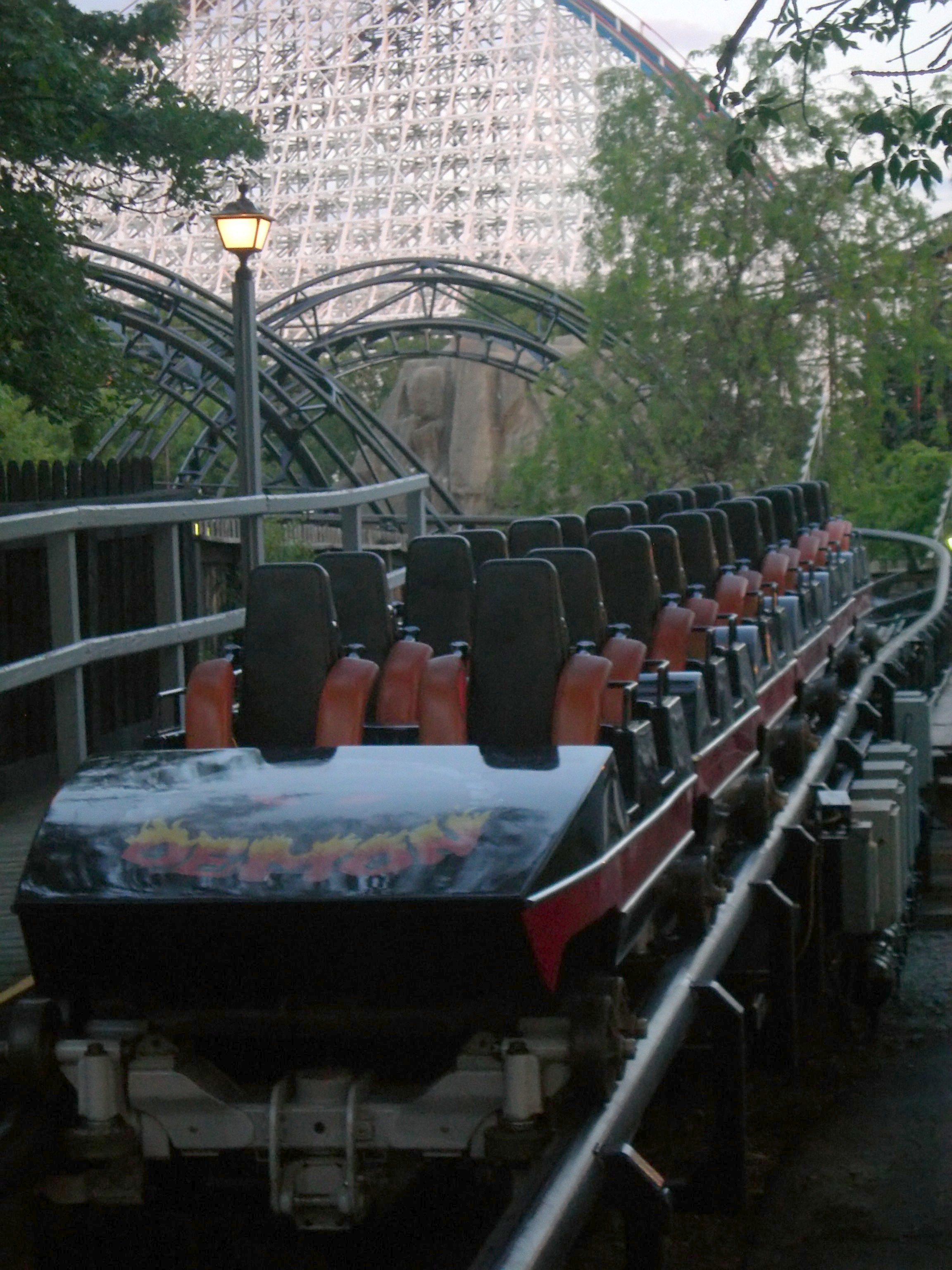 Demon's black train.